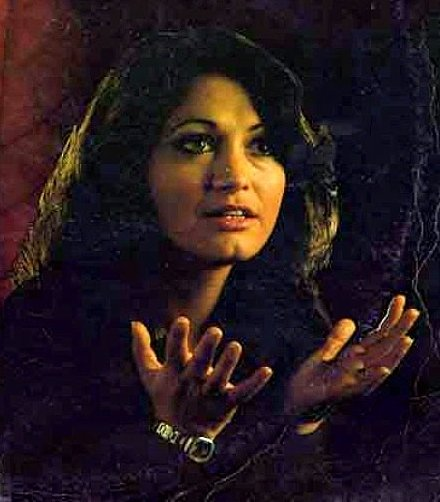 Angela Irene. Argentina folk singer.